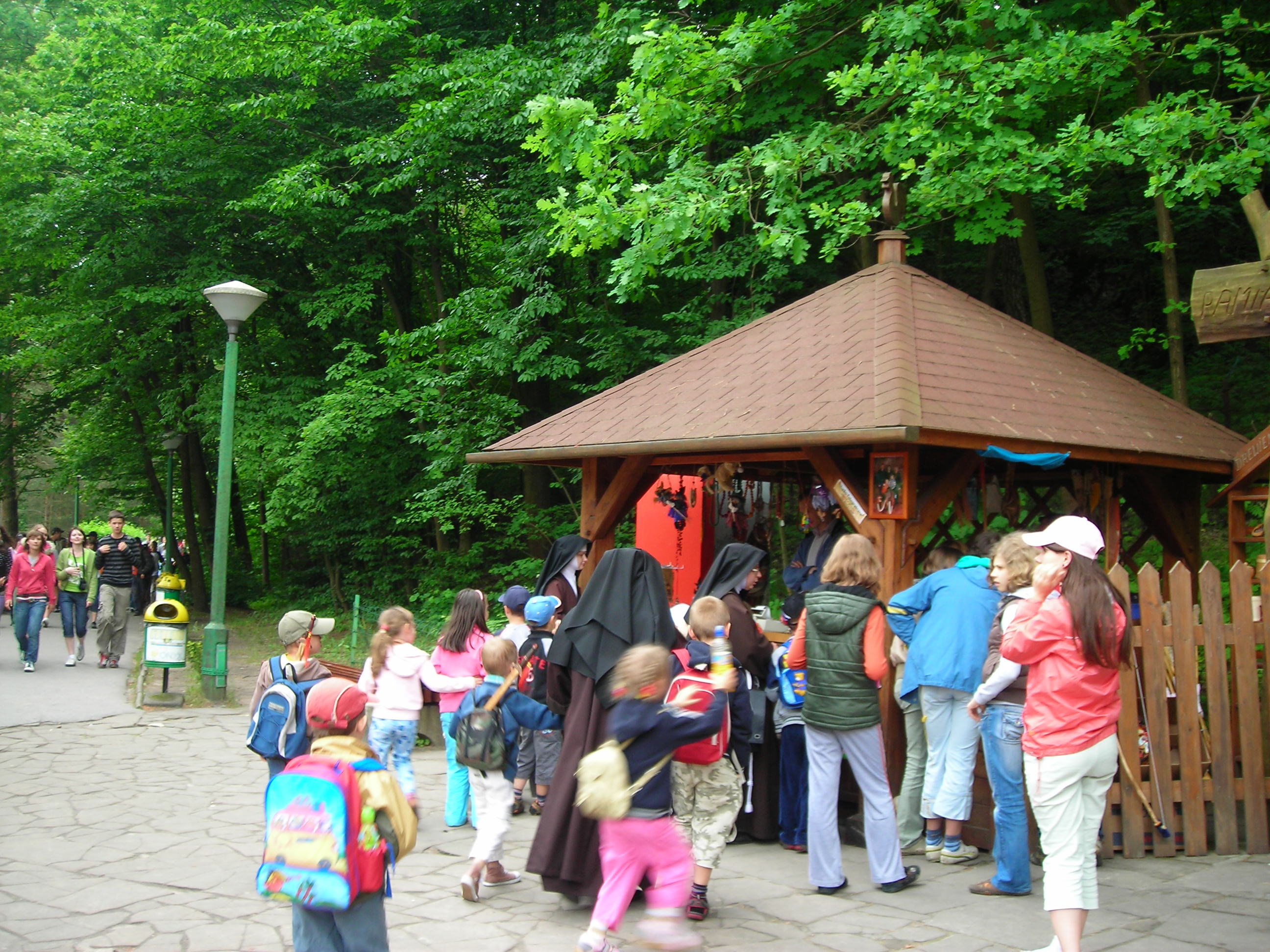 Tourists buying souvenirs outside Jaskinia Raj, Poland